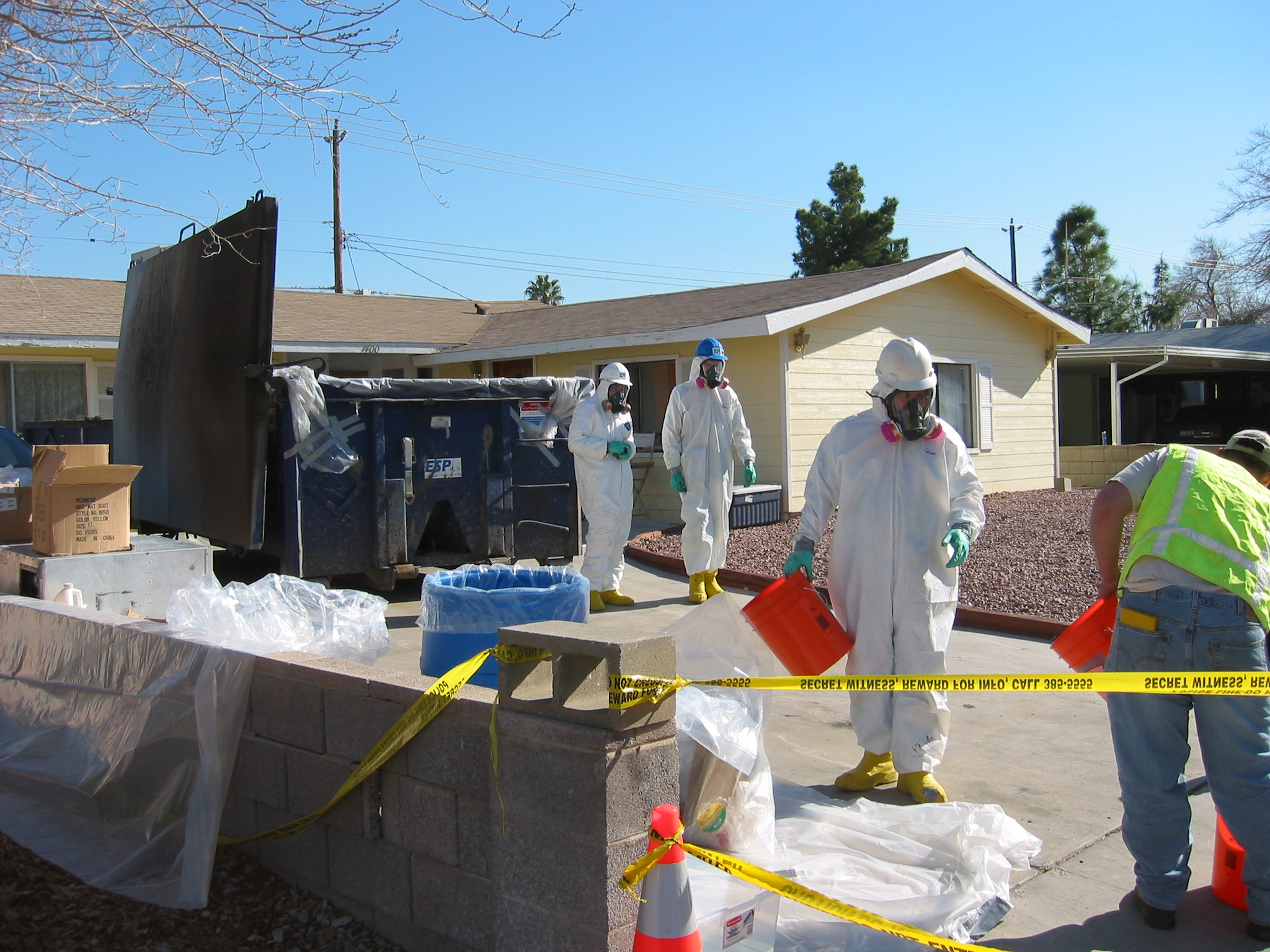 Workers suited up for mercury cleanup at a contaminated home in Nevada, where a teen spread mercury in his home and unwittingly poisoned himself.